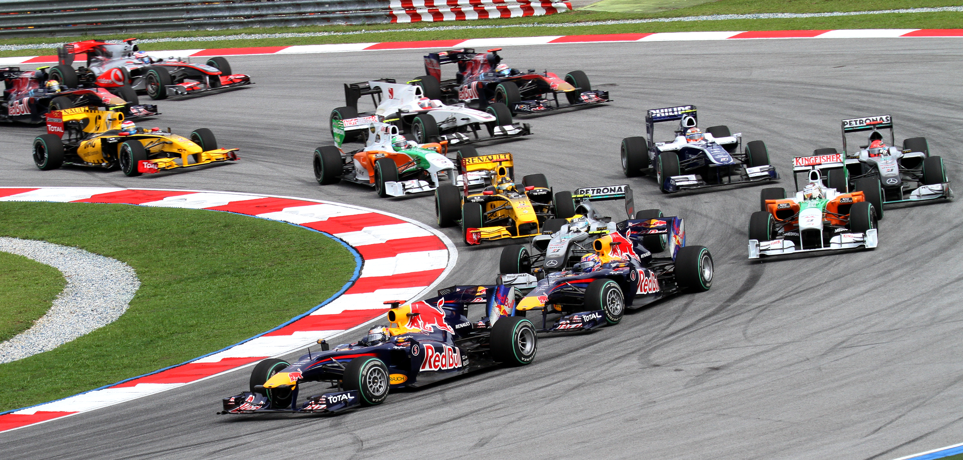 Formula One 2010 Rd.3 Malaysian GP: opening lap